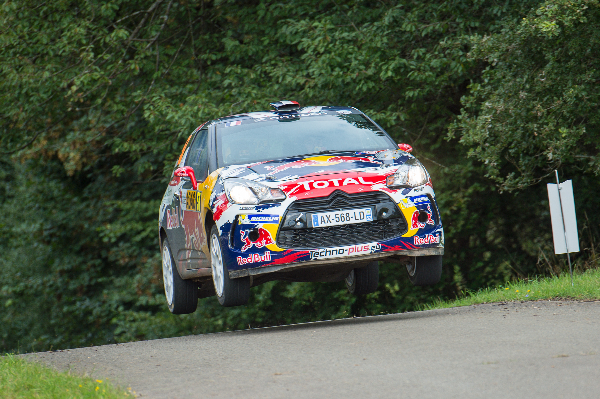 ADAC Rallye Deutschland 2014,Citroen DS3 R3T,FIA,FIA World Rally Championship,Gina,Motorsport,Panzerplatte,Rally,Rallye,SS10,Stephane Lefebvre,Thomas Dubois,WP10,WRC